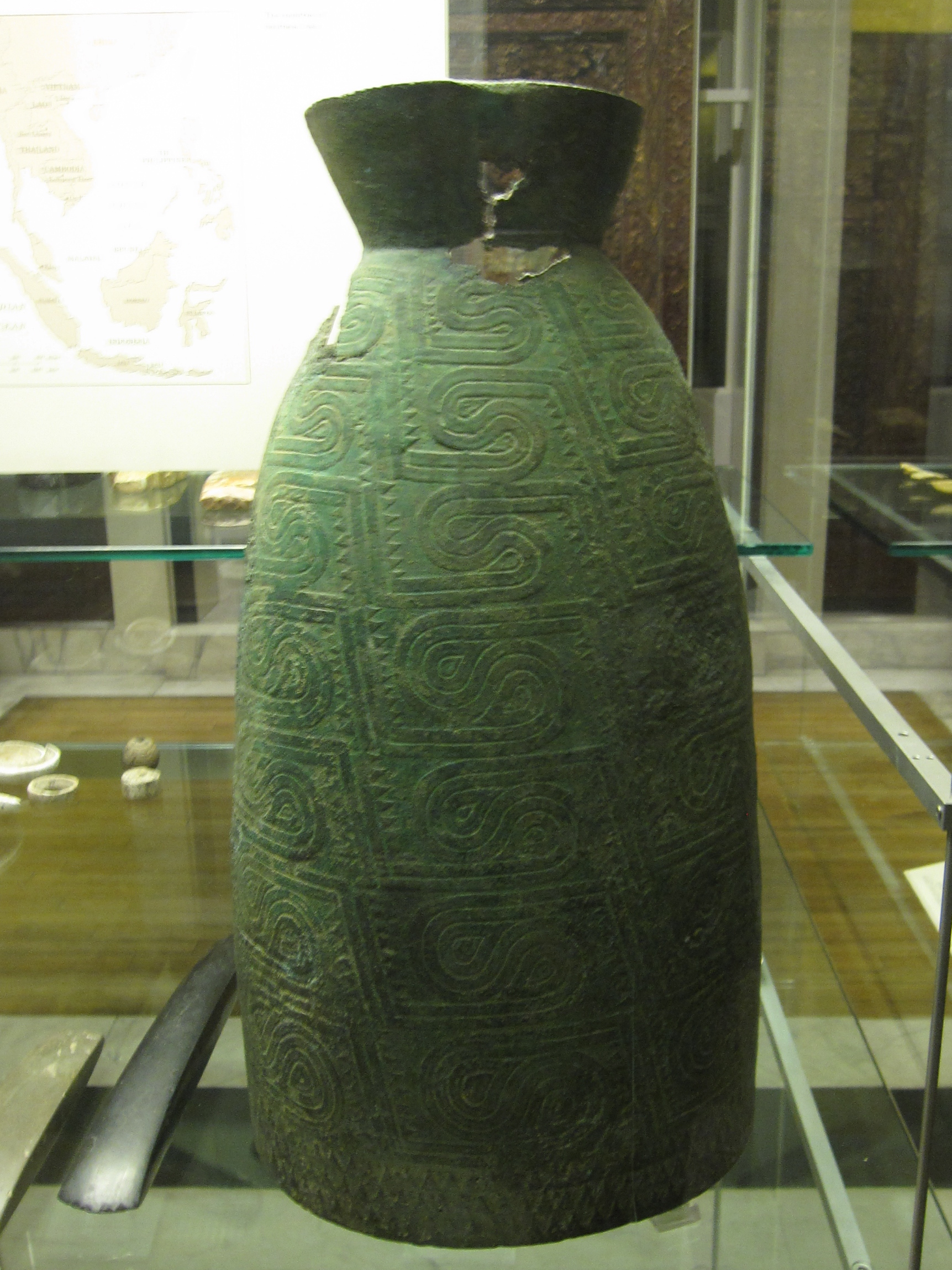 Bronze bell. Klang, Selangor state, western Malaysia. About 200 BCE-200 CE. Found with a number of iron tools, this bell is one of the only two examples of the type, the other from Battambang in Cambodia. It is probably a ceremonial object related to the bronze drums known from many regions of southeast Asia and south China. British Museum.